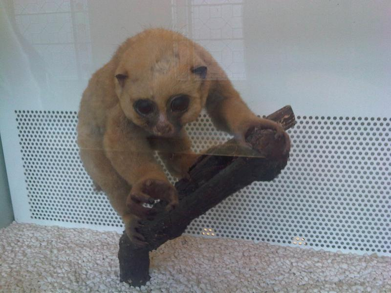 Taxidermied potto (Perodicticus potto) at the Natural History Museum in London.